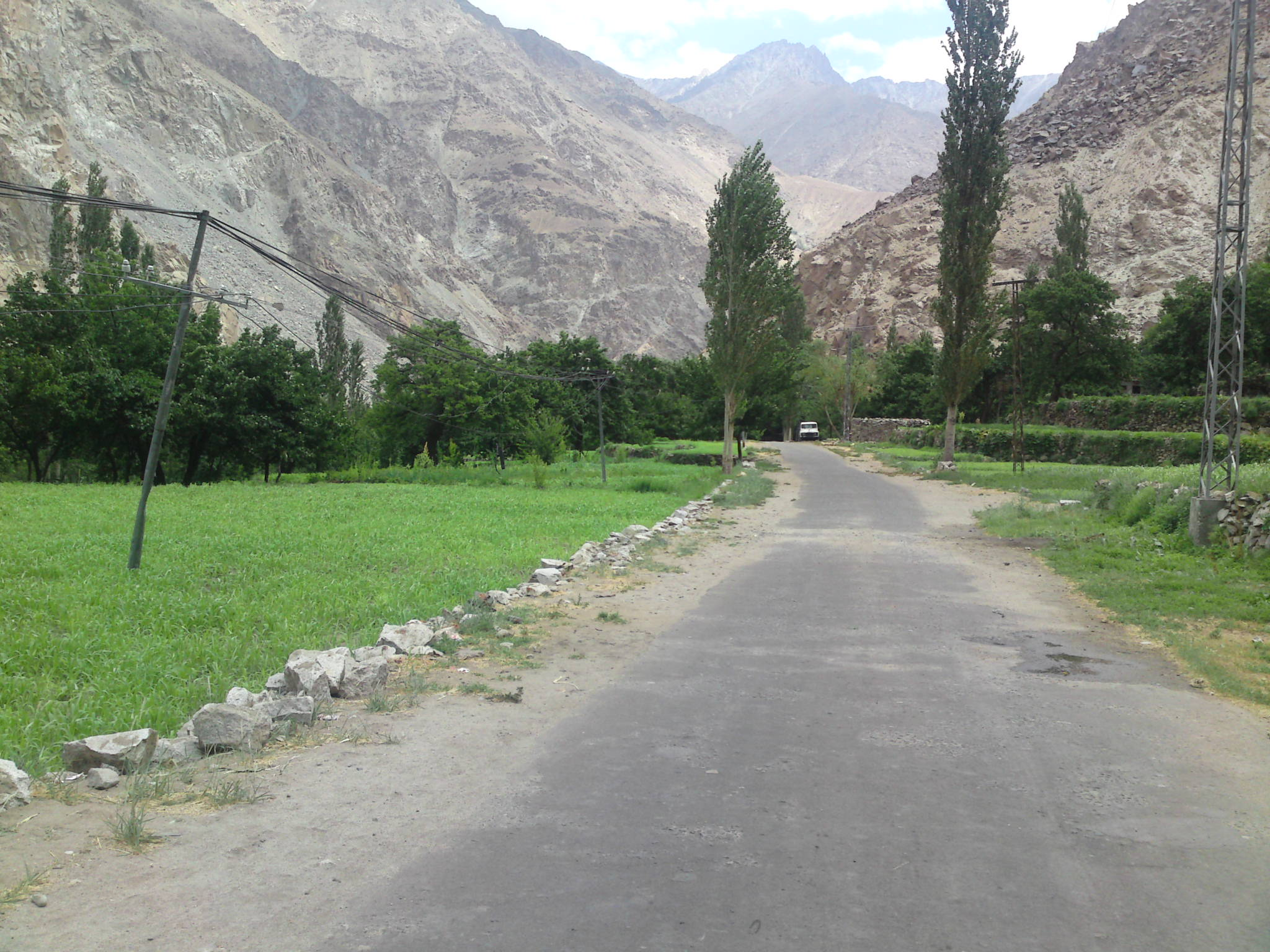 This is Kargil road.